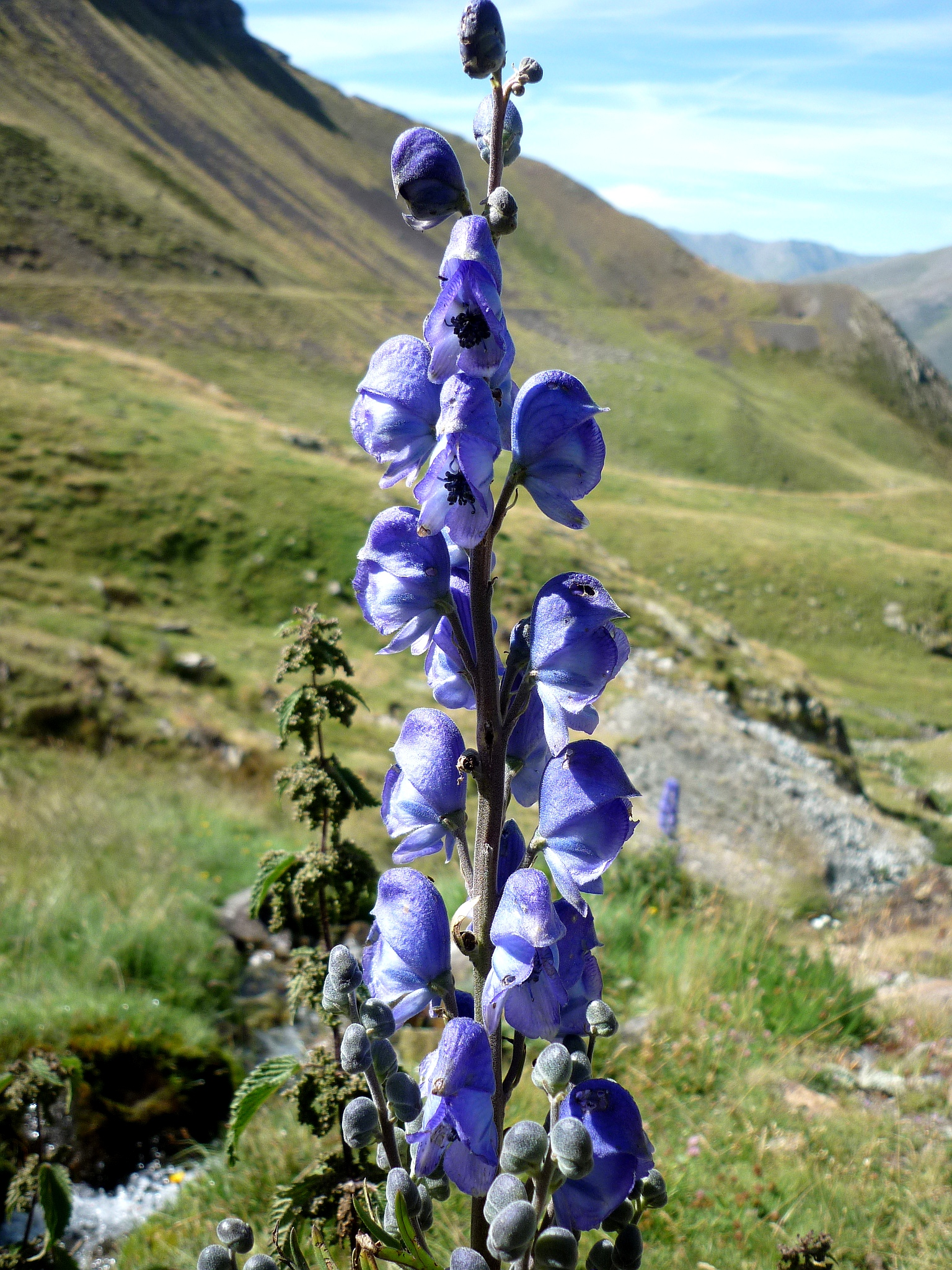 Aconitum napellus. Near the Estany Gento (Pallars Jussà - Catalunya, at 2,140 m altitude